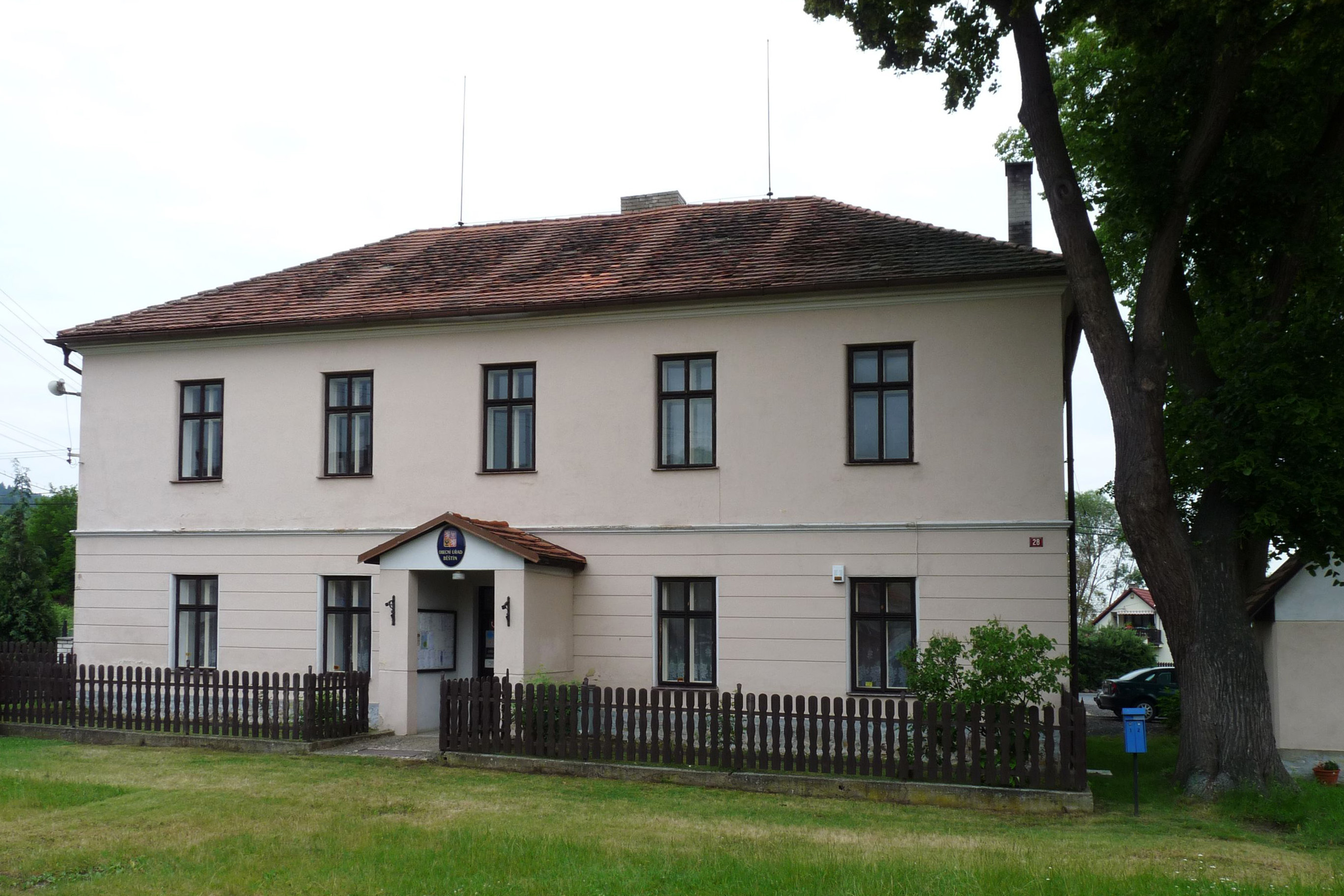 Municipal office building in the village of Běštín, Beroun District, Central Bohemian Region, Czech Republic.